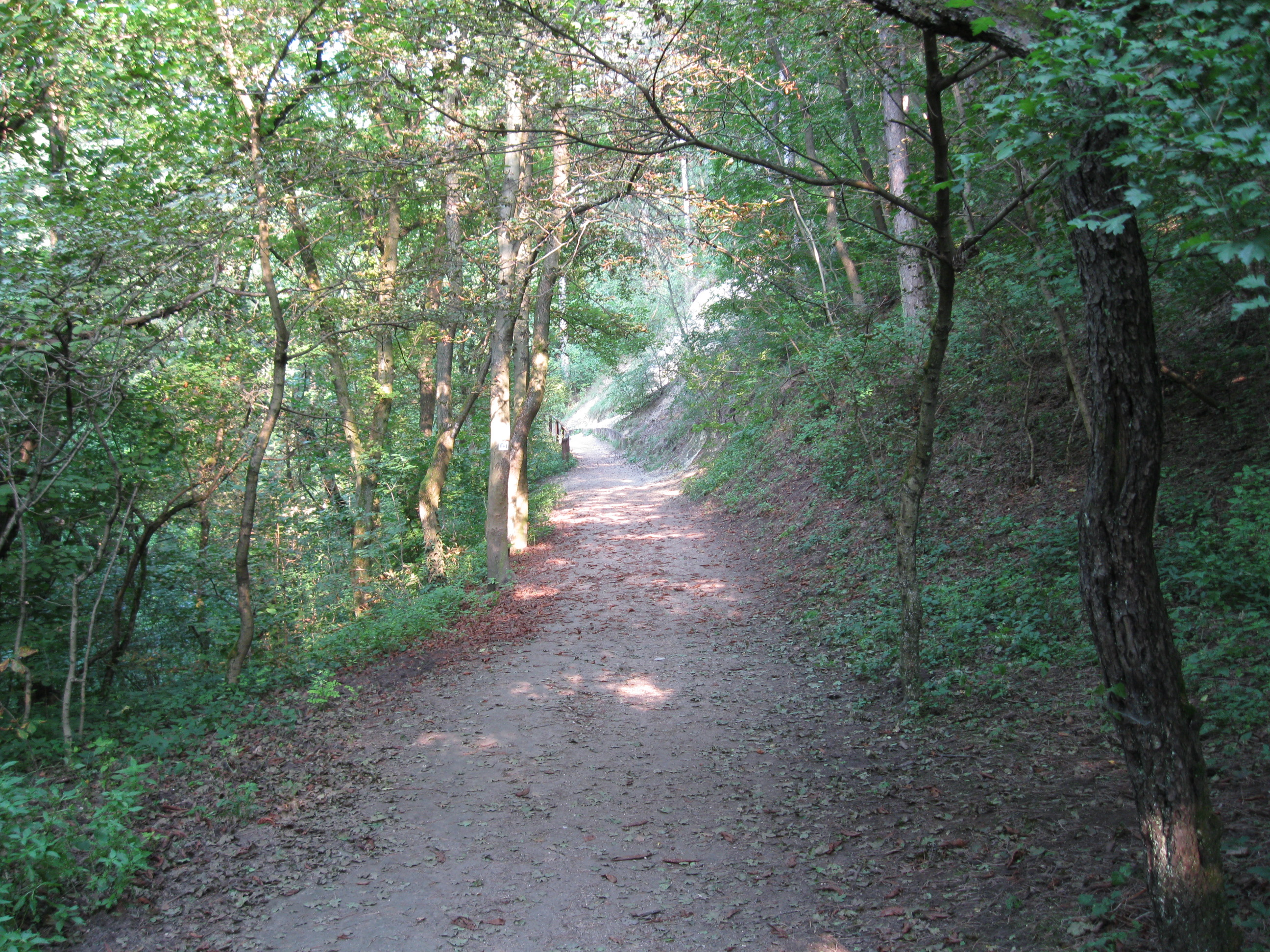 Detail of the Alsó-Jegenye Valley